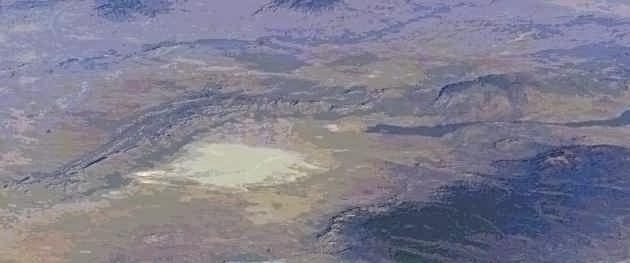 NASA Astronaut photo Mission-Roll-Image ISS008-E-5616 Earth Sciences and Image Analysis, NASA-Johnson Space Center. 29 Dec. 2003. "The Gateway to Astronaut Photography of Earth: Find Photos." (14 Jan. 2004). Send questions or comments to the NASA Responsible Official at mailto: Curator: Earth Sciences Web Team Notices: Web Accessibility and Policy Notices Last Update: 29 Dec. 2003 Direct link